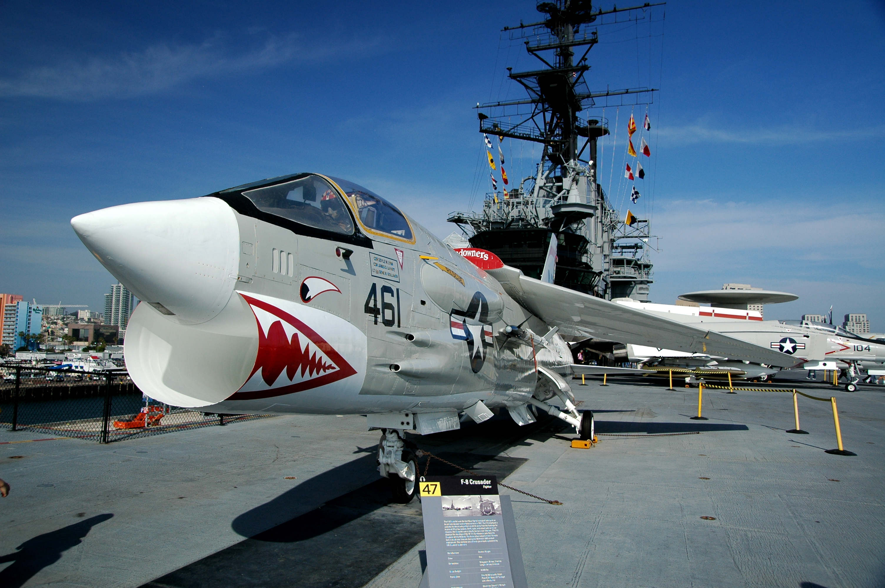 Vought F-8C Crusader displayed aboard the USS Midway Museum in San Diego (California, USA). This Crusader, BuNo 147030, shows markings of fighter squadron VF-111 Sundowners, part of Carrier Air Wing Two (CVW-2) (tail code "NE") aboard USS Midway in 1965.